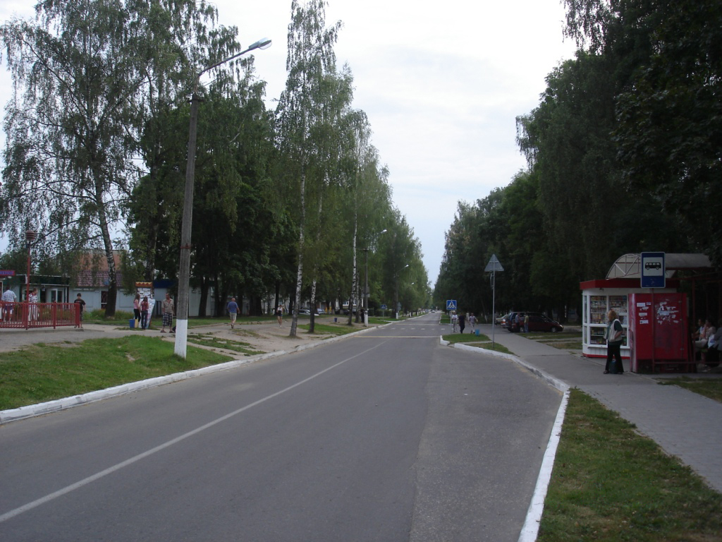 One of the Fanipol's main streets, Yakuba Kolasa Street.